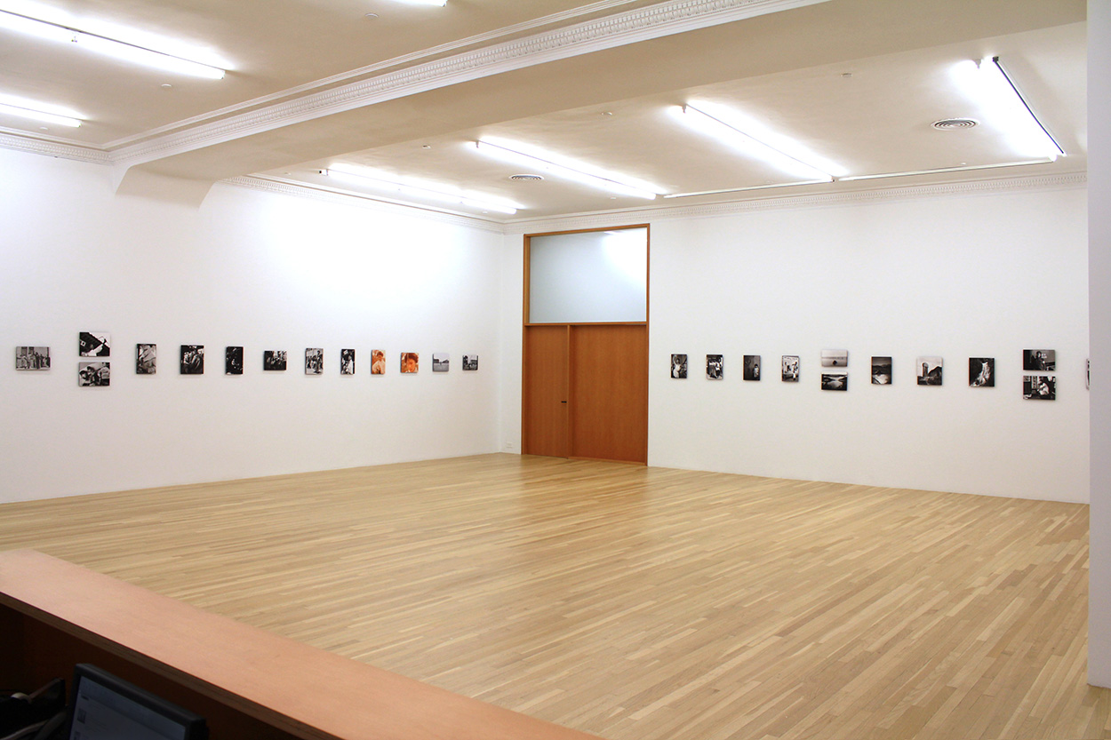 Installation of the 2014 Chris Marker exhibition at Peter Blum Gallery, 20 West 57th Street NY 10019 New York